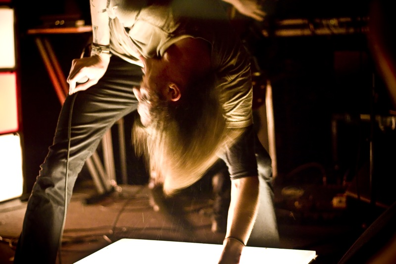 Fear Before the March of Flames performing live.